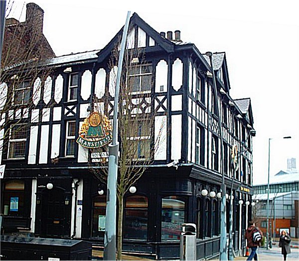 The Howard Hotel, Howard Street (Sheffield).